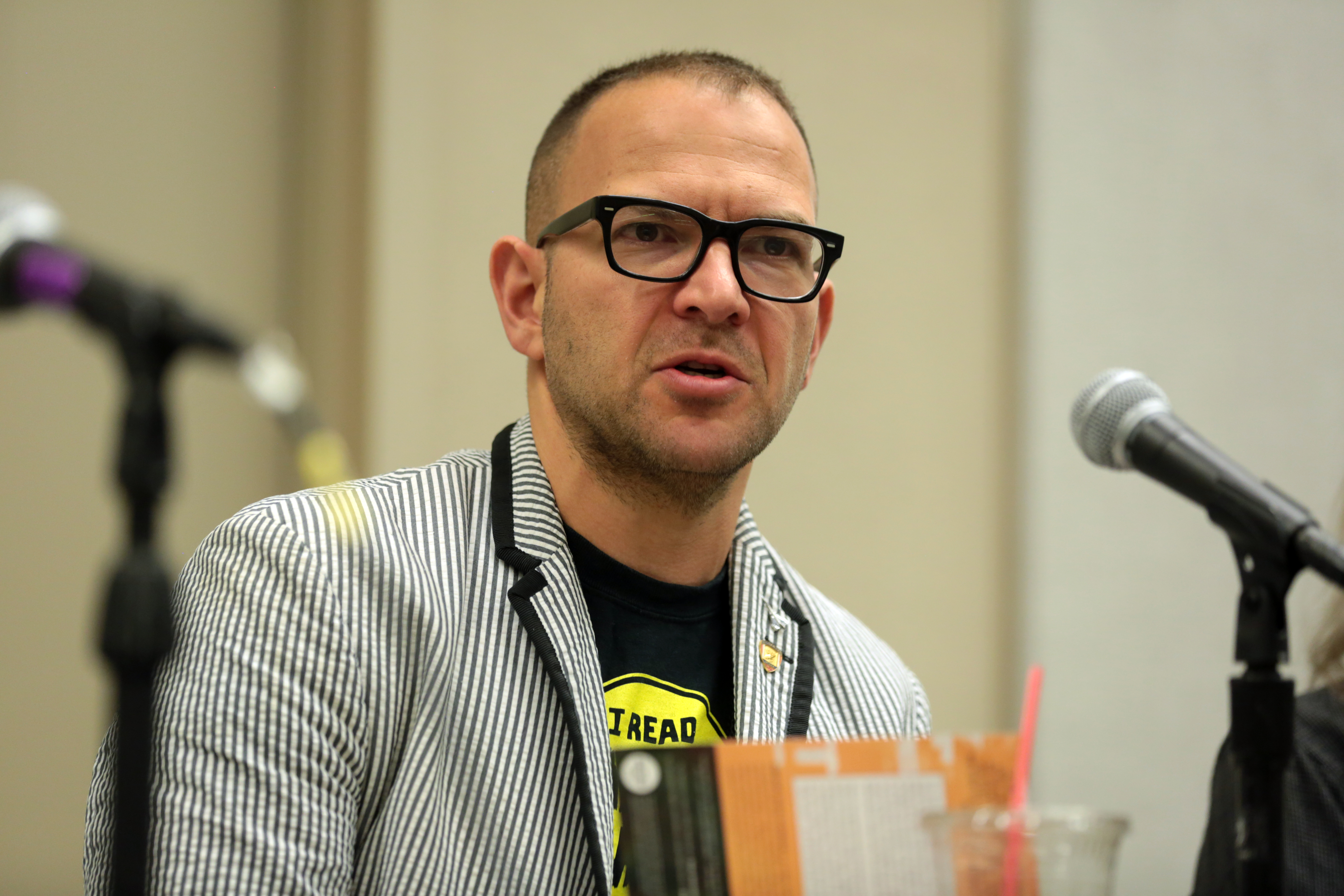 Cory Doctorow speaking at the 2018 Phoenix Comic Fest at the Phoenix Convention Center in Phoenix, Arizona.